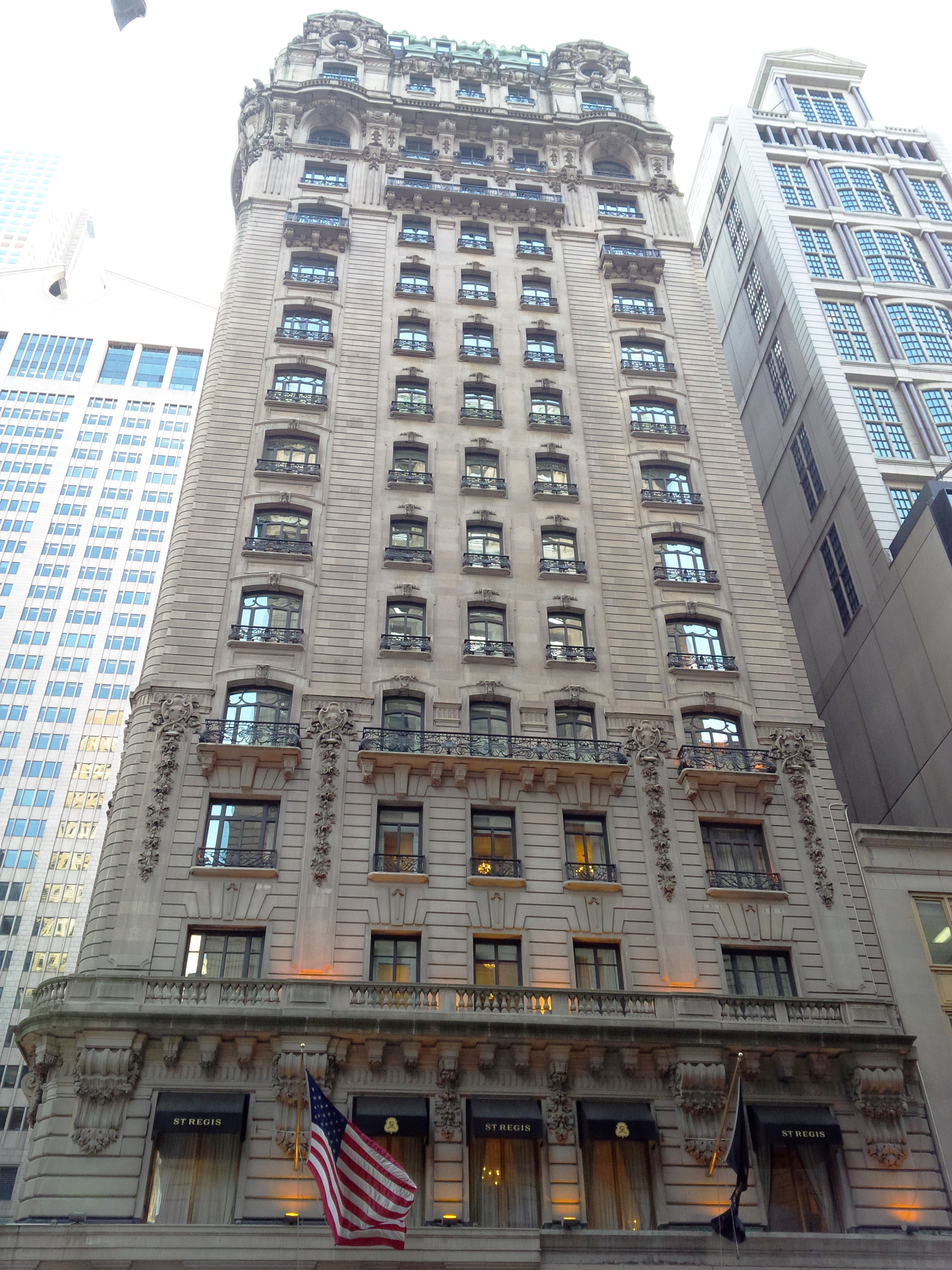 From 5th Ave